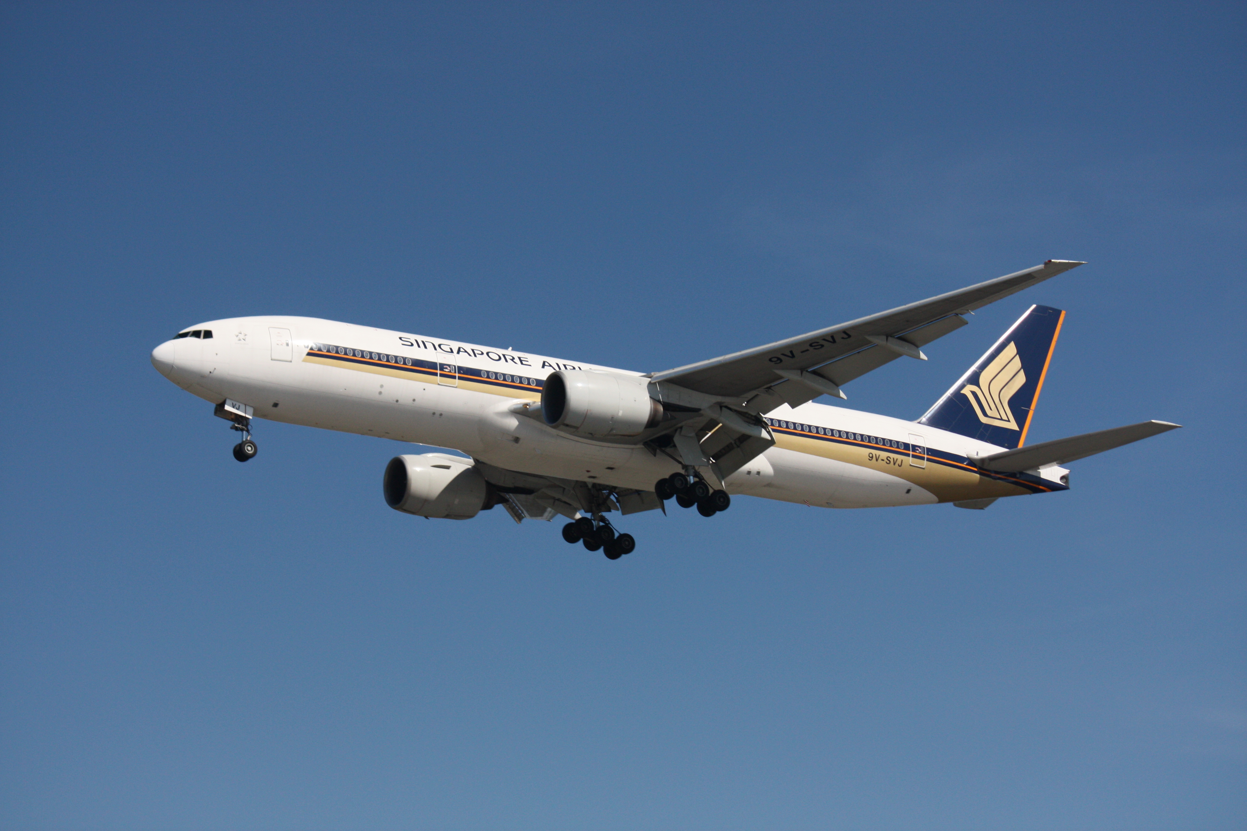 A Singapore Airlines Boeing 777-212/ER, tail number 9V-SVJ, landing at Vancouver International Airport